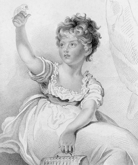 Print of Princess Charlotte of Wales as a young girl.